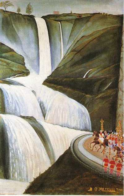 Marmore waterfall and roman soldiers